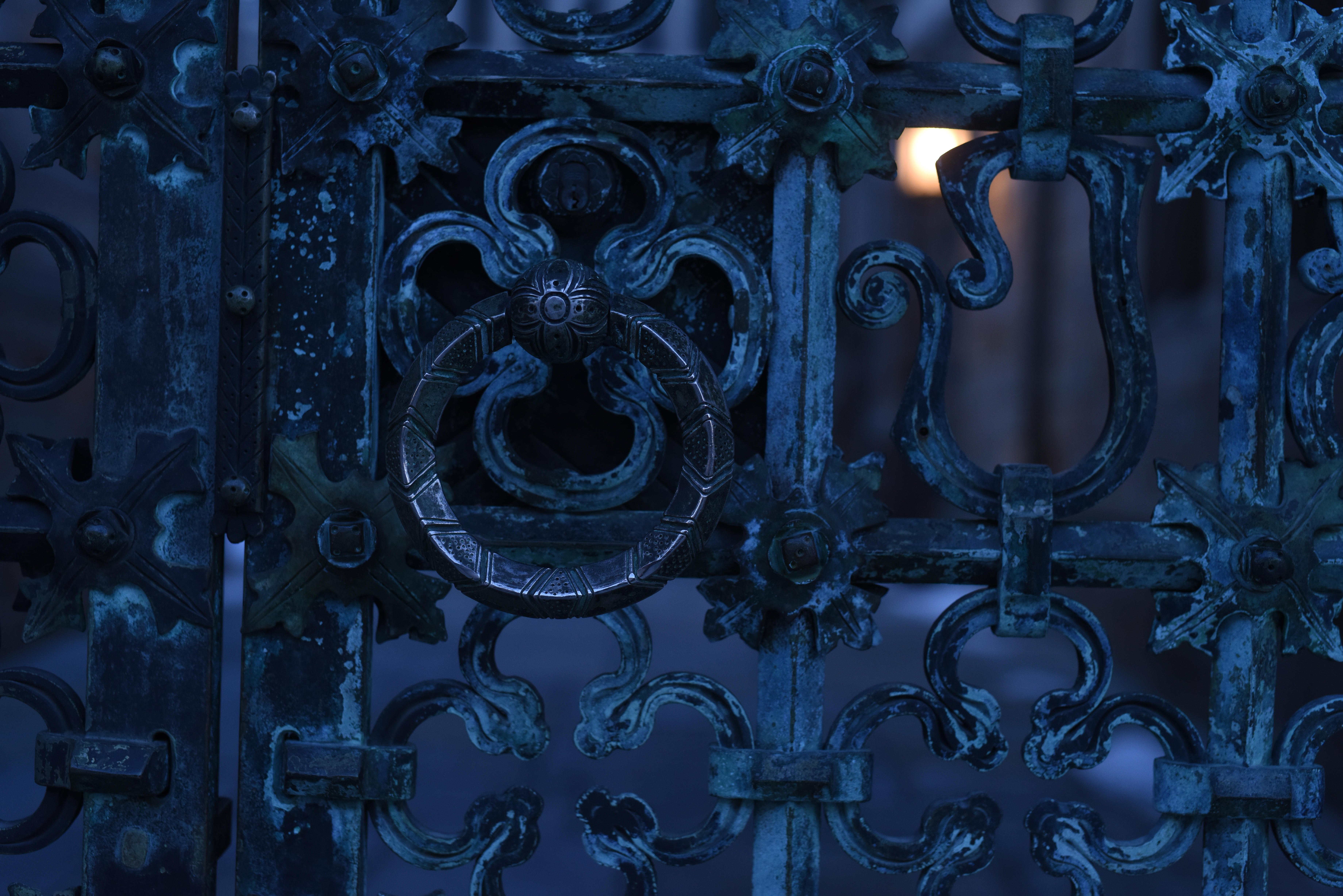 Yale University was formally known the Collegiate College.